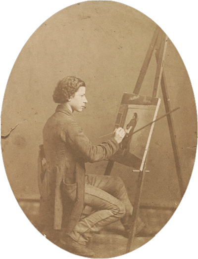 Henry Mosler working on a painting, 1860 / unidentified photographer. Henry Mosler papers, Archives of American Art, Smithsonian Institution.